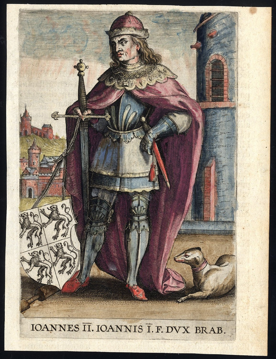 John II of Brabant